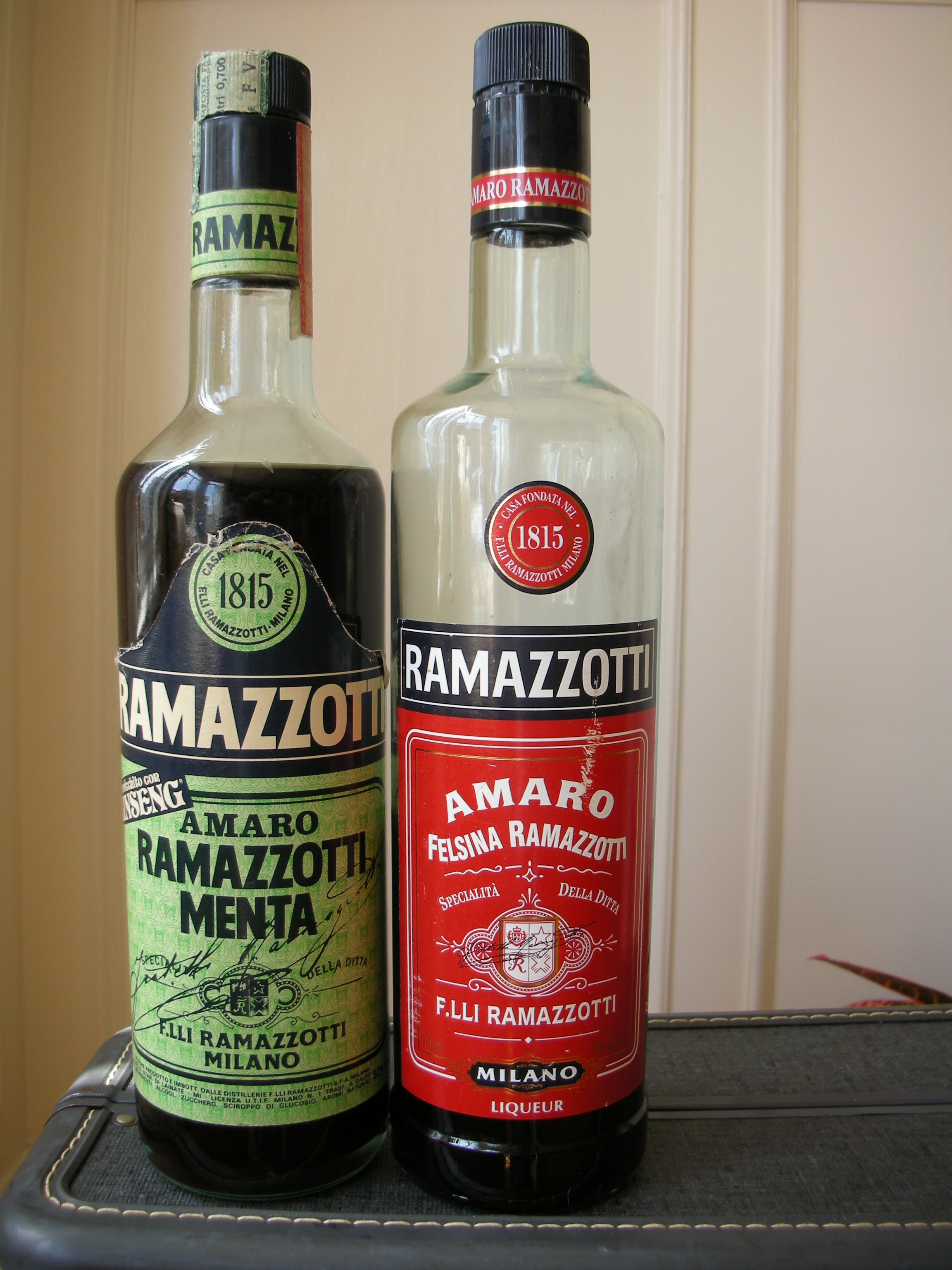 Bottle of Ramazzotti and Ramazzotti Menta (with Ginseng).